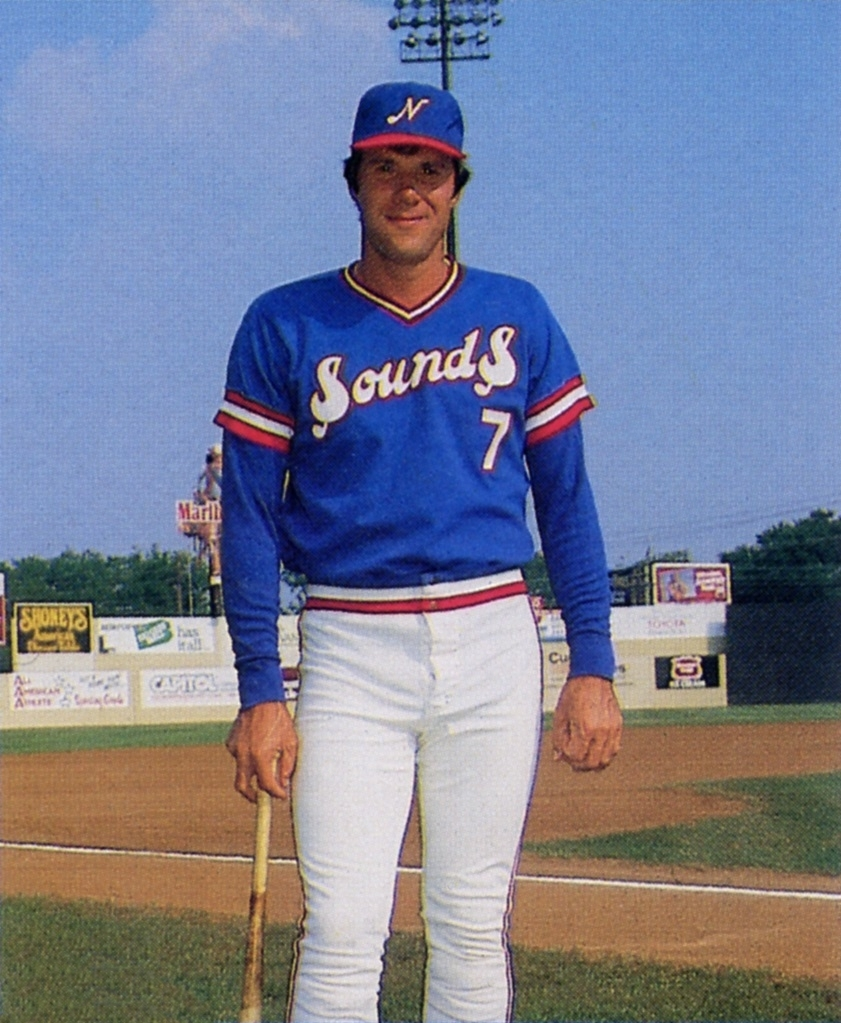 Manager Leon Roberts of the 1986 Nashville Sounds Minor League Baseball team of the American Association